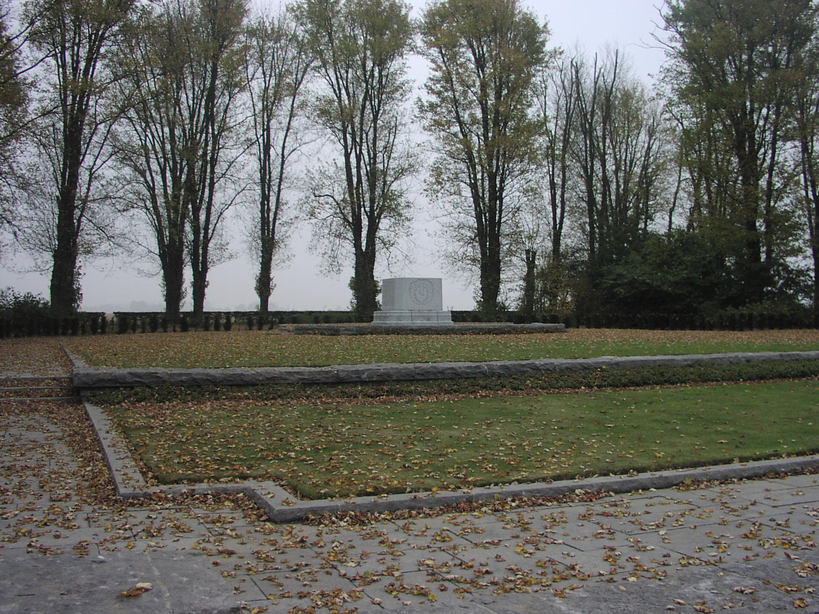 Dury Canadian Memorial, Taken by Bill Kempthorne October 2005